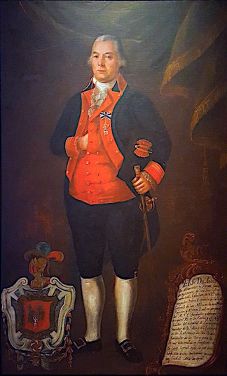 Andrés Almonester (sometimes given as "Almonaster") formal painted portrait, New Orleans, 1796. Almonester is shown with his ceremonial walking stick as Regidor of the Cabildo, sword designating rank of Colonel, and insignia of knighthood in the Order of Charles III. His family crest is at lower left; a list of his accomplishments in Spanish Colonial New Orleans is at lower right. The pose conceals his hand disfigured by injury some years before. (Details about painting via book "Intimate Enemies" by Christina Vella)